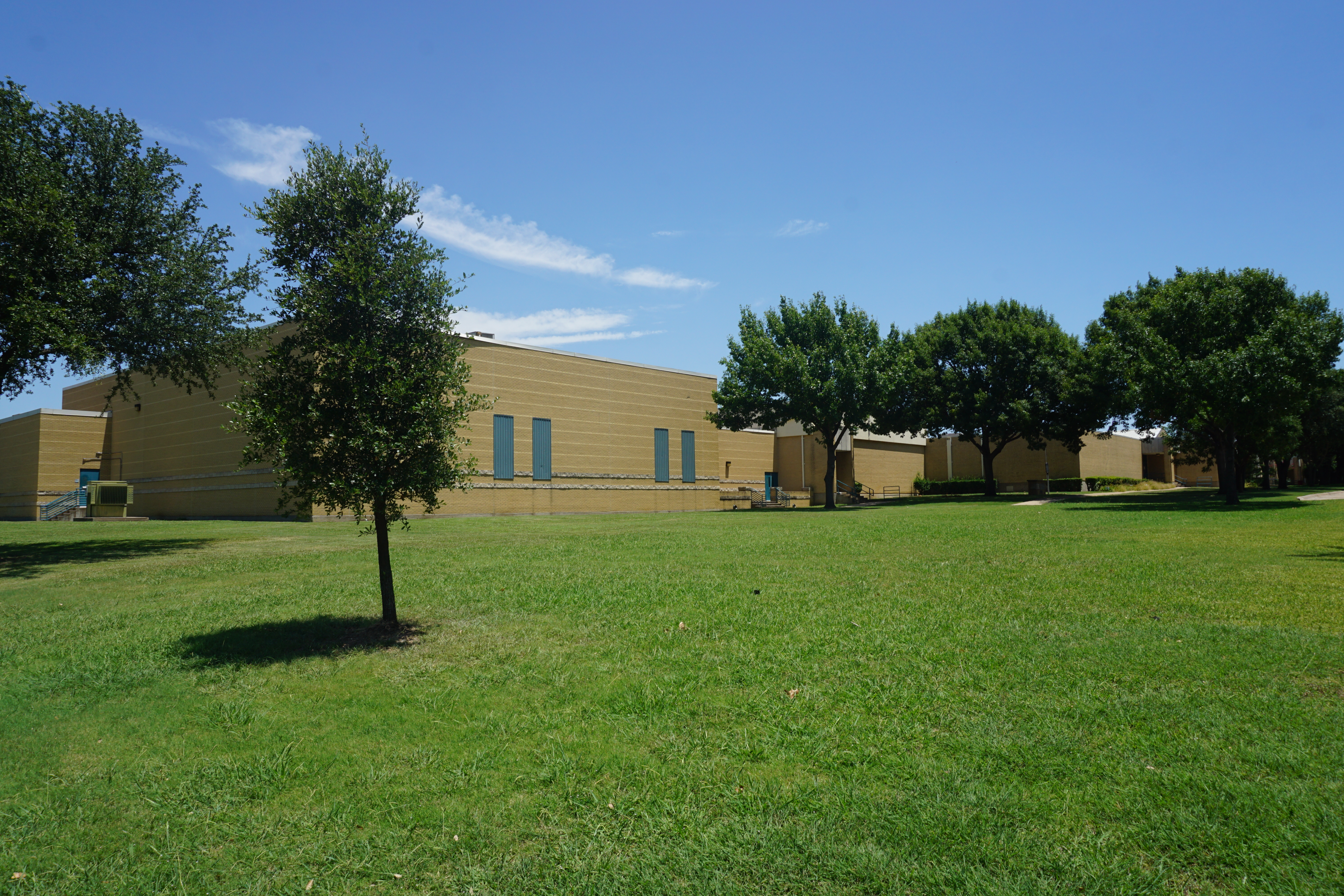 DeWitt Perry Middle School in Carrollton, Texas (United States).